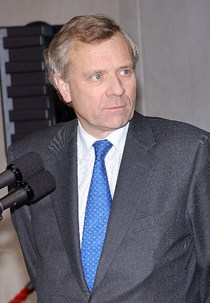 Former secretary of state Colin Powell (cropped) and NATO Secretary General Jaap de Hoop Scheffer spoke with the press after their meeting. (Cropped image)